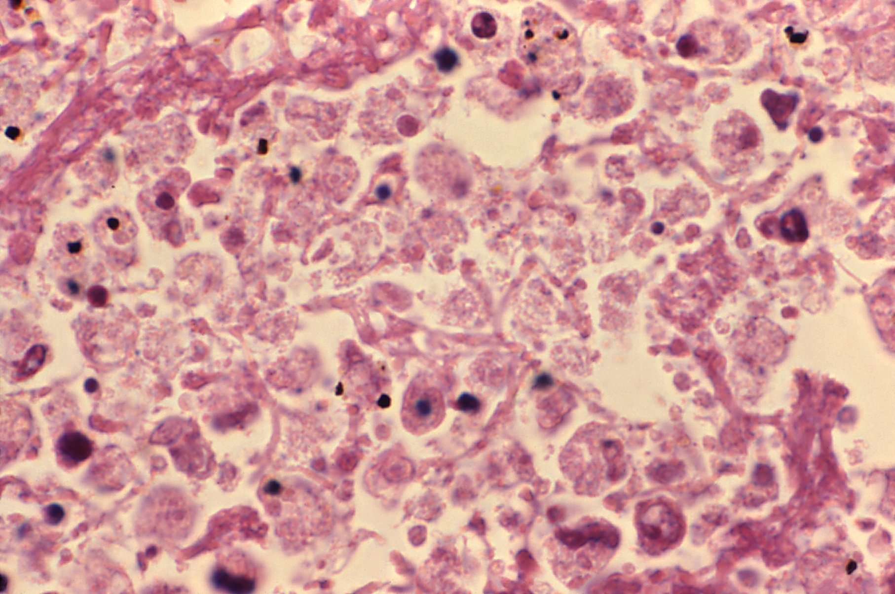 This micrograph depicted details seen in a lung tissue specimen from a Knoxville patient with fatal pneumonia due to Legionnaires’ disease. The tissue was stained using hematoxylin-eosin (H&E) stain. Legionella pneumophila are Gram-negative bacteria. Using H&E stain, these organisms, if present in the specimen, would stain a pink or red color. Note how the alveolar spaces are so congested with a leukocytic infiltrate in response to the infection.